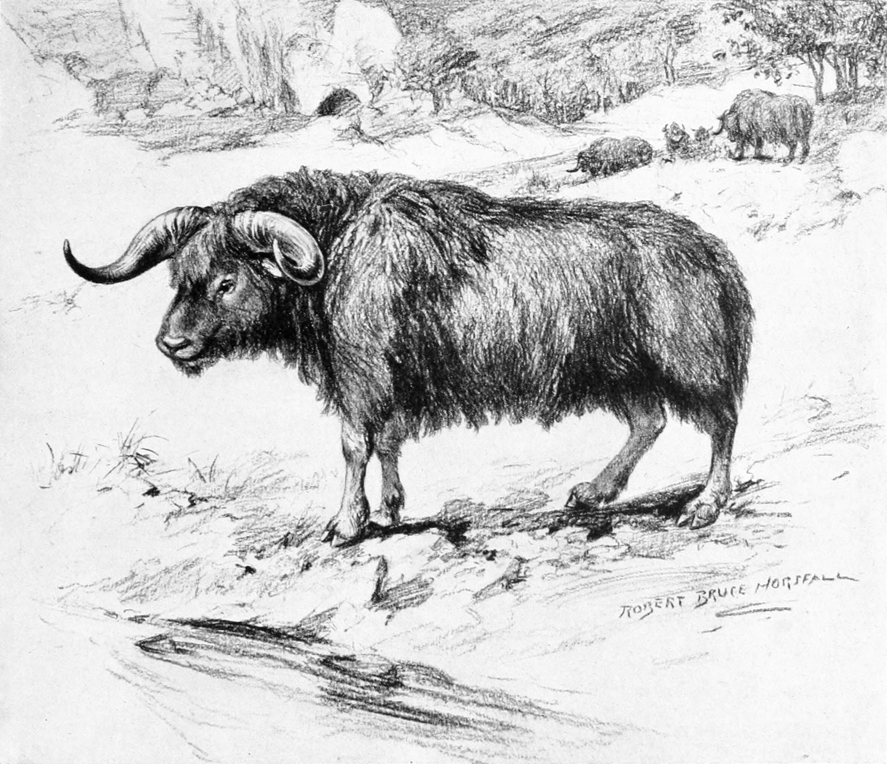 Life restoration of Euceratherium (Preptoceras) from W.B. Scott's A History of Land Mammals in the Western Hemisphere. New York: The Macmillan Company.